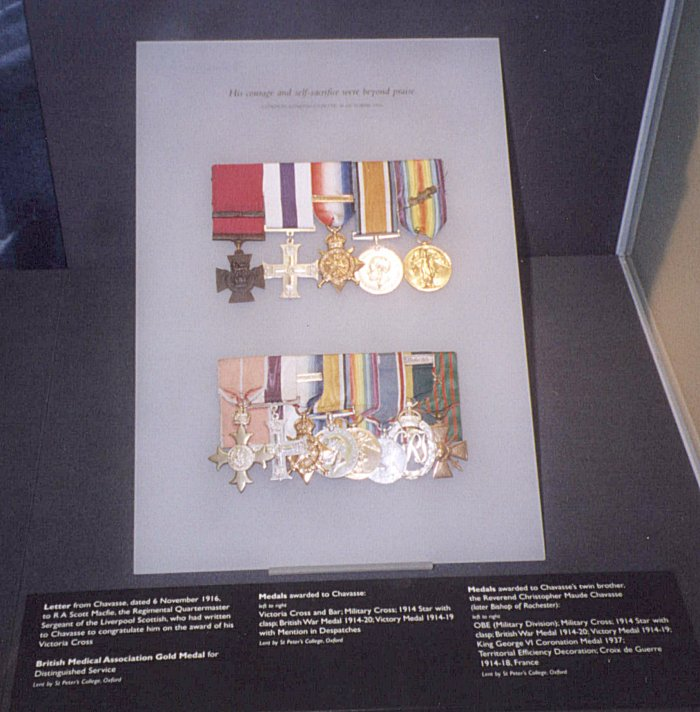 Photograph showing World War I medals of Noel Chavasse VC and Christopher Chavasse. Noel's medals are top row. Christopher's medals are bottom row.